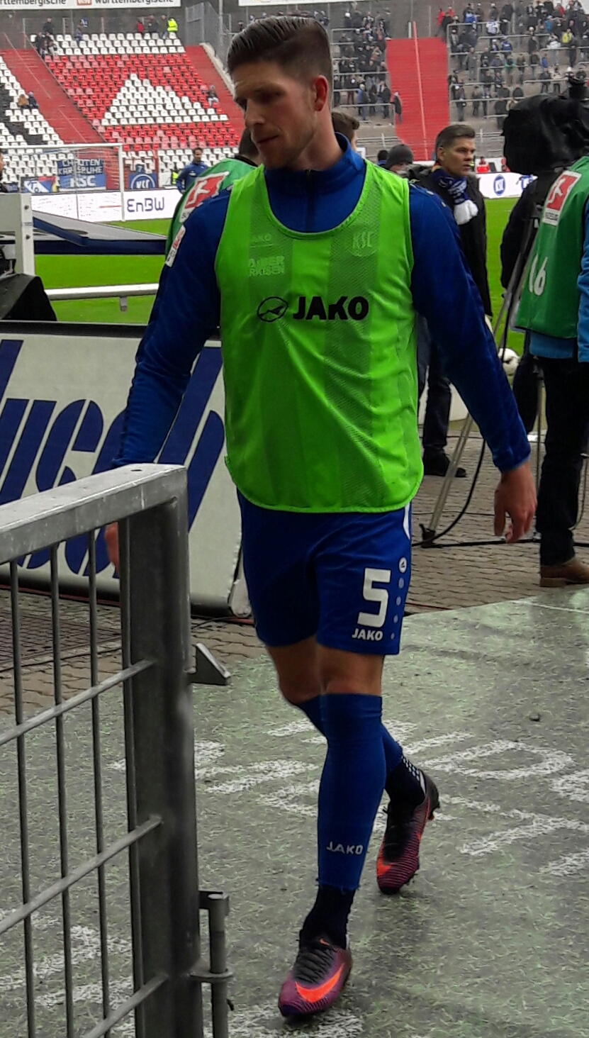 Footballplayer Dennis Kempe before the match KSC - Eintracht Braunschweig at December, the 17th 2016